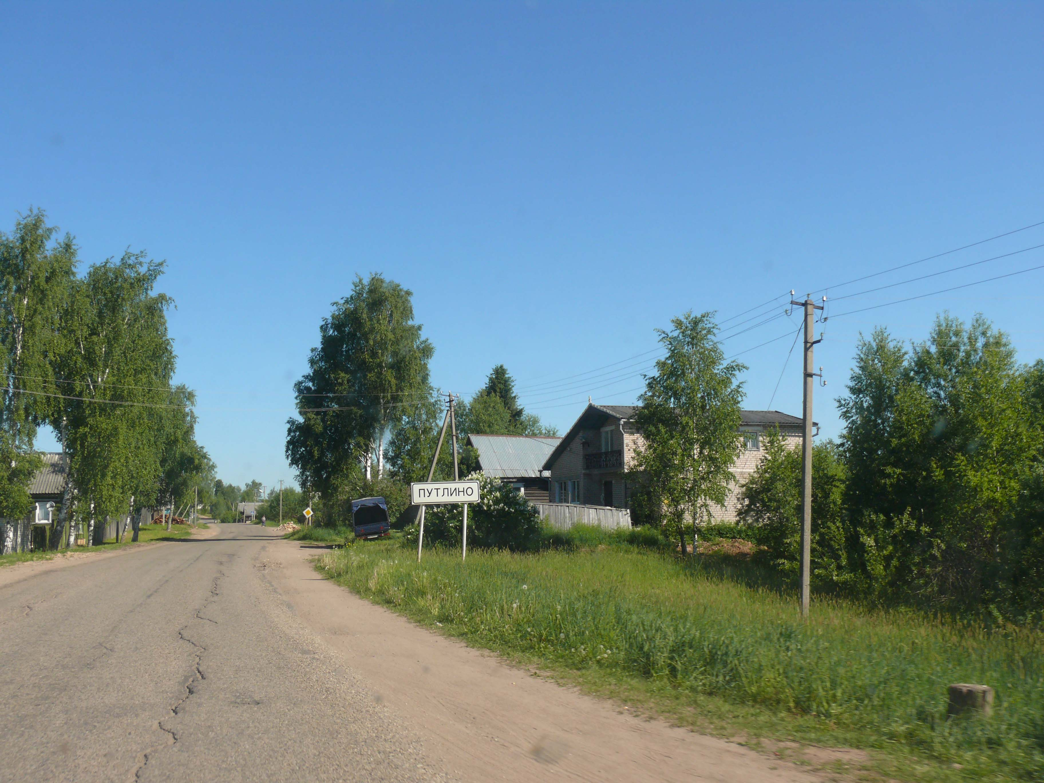 Putlino village. Borovichsky district, Novgorod oblast, Russia